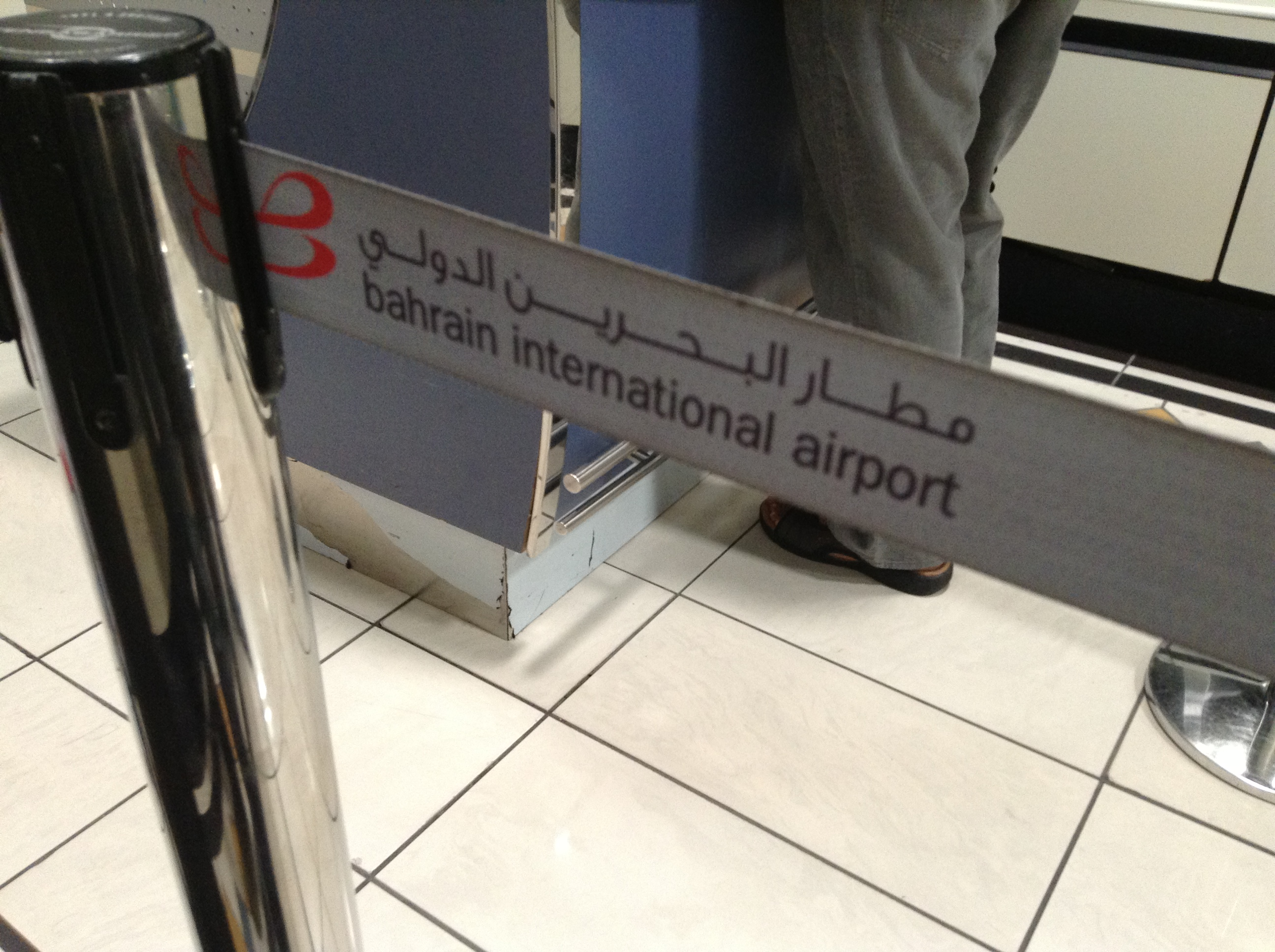 Bahrain International Airport security line